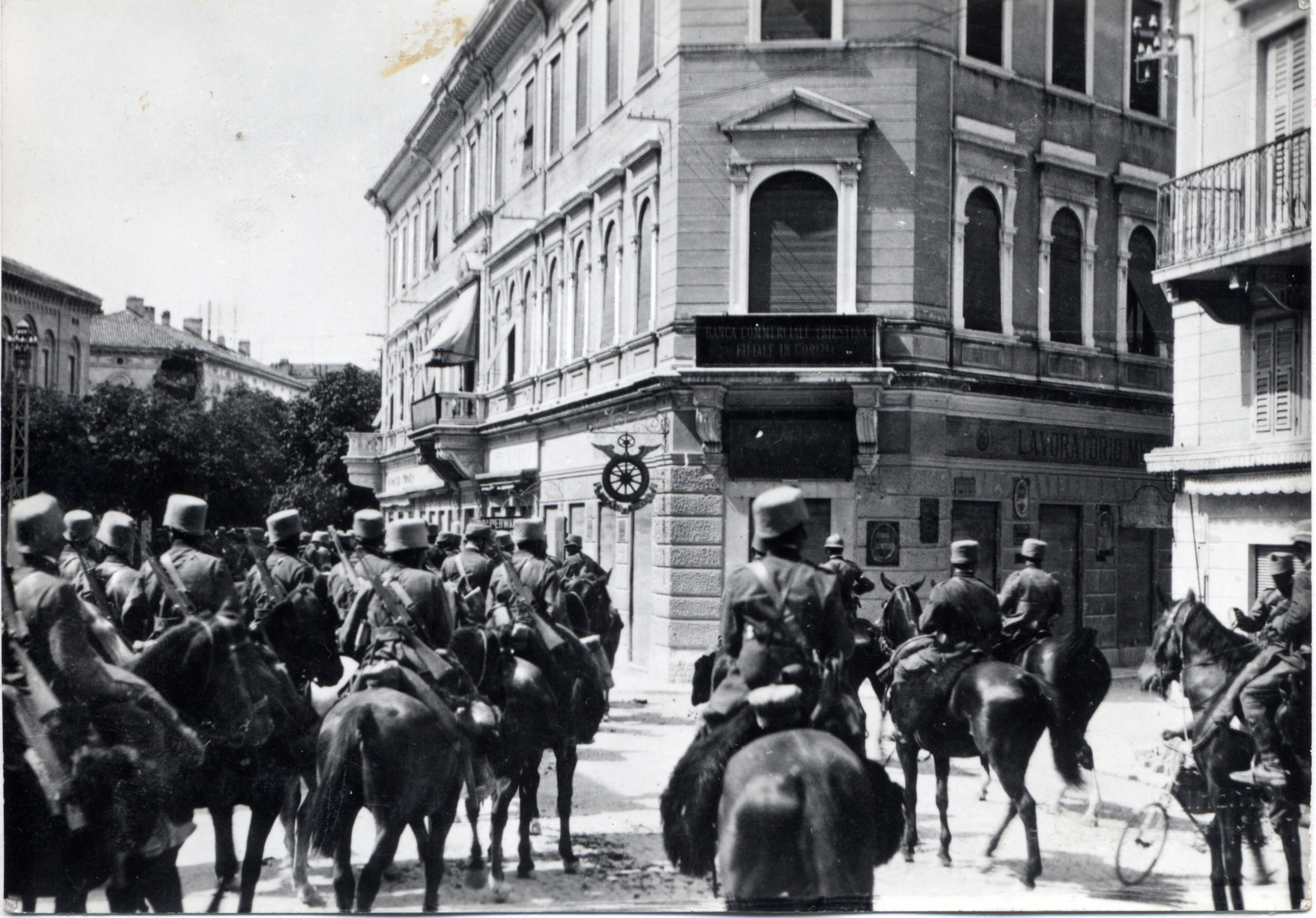 World War 1 - Italian Army: Sixth Battle of the Isonzo - 9th August 1916 Italian cavalry enters Gorizia